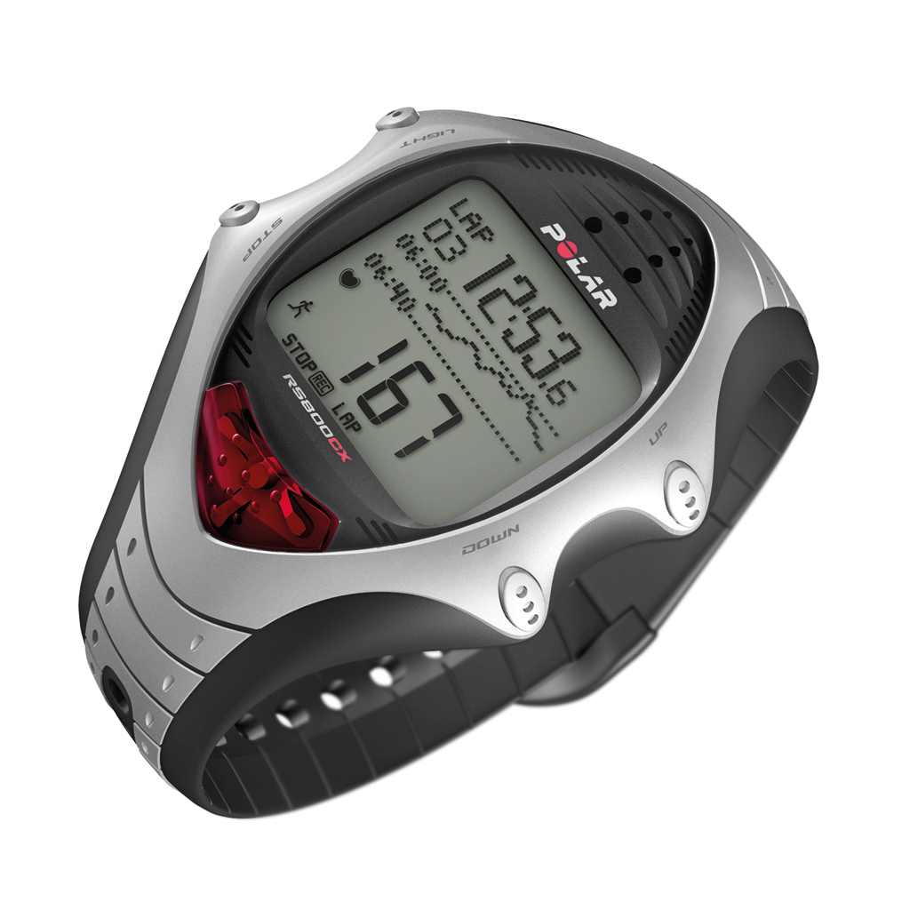 Polar RX800CX product image